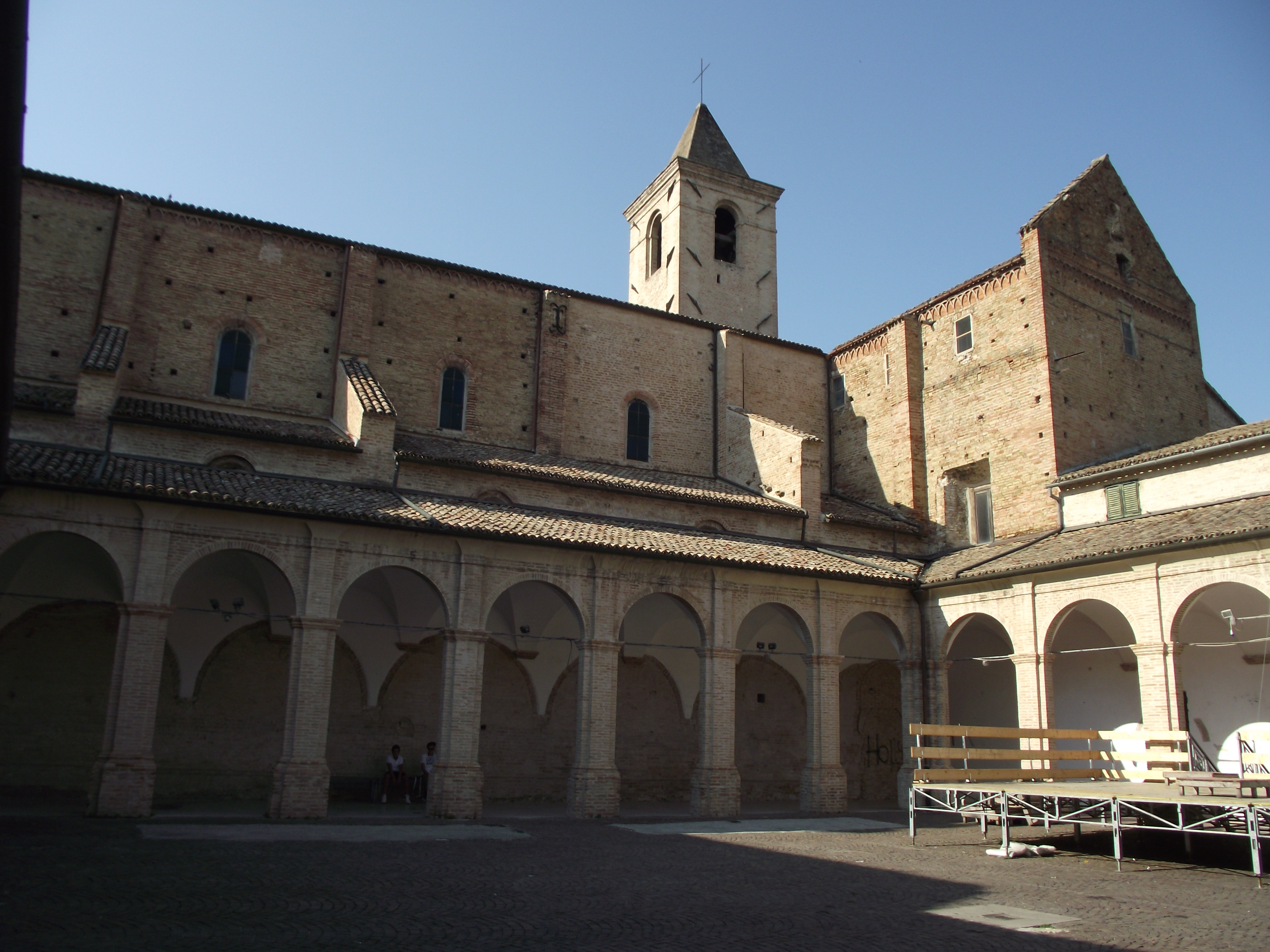 Cloister of St. Mary's cistercian Abbey, Chiaravalle – Italy